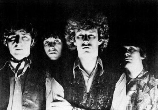 Trade ad for Ten Years After's single "Portable People". To better adapt it to his respective Wikipedia article, the ad was cropped and cleaned in a graphics editing program. The original can be viewed at the source below.